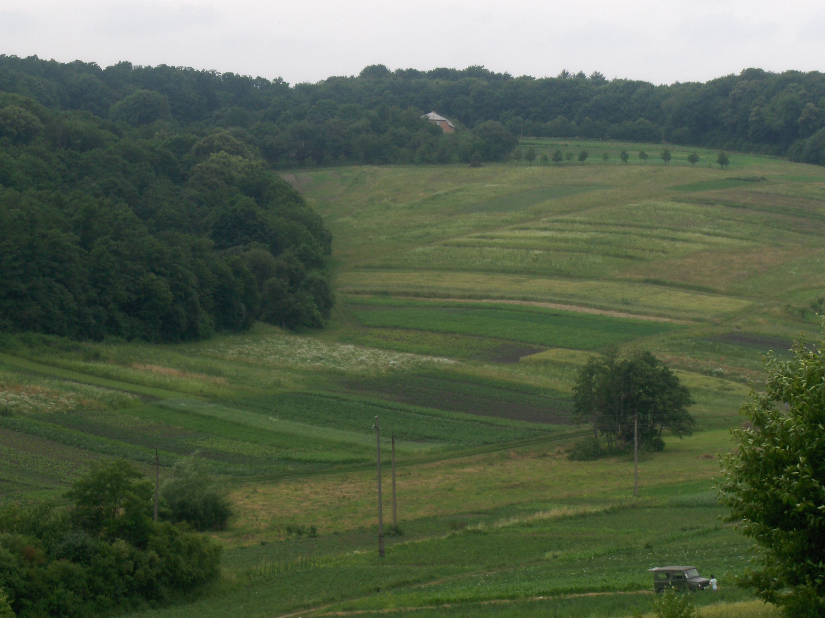 Landscape outside of Berezhany (to the west). Berezhany, Ternopil oblast, west Ukraine.